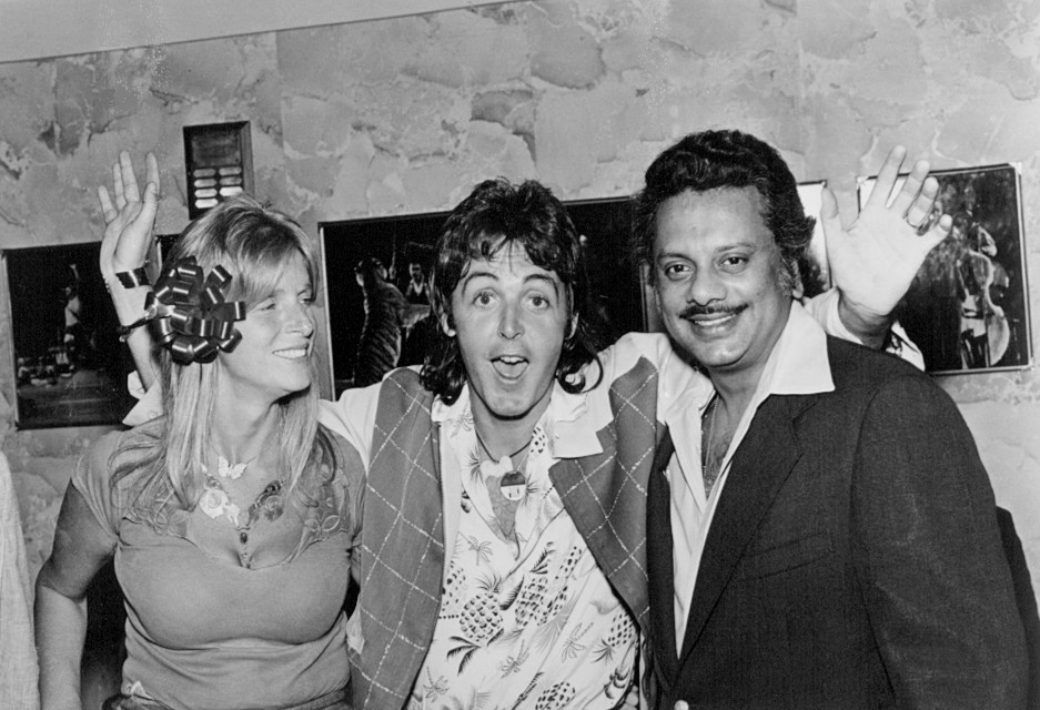 Photo of Paul and Linda McCartney with Bhaskar Menon, president of Capitol Records. The photo was taken at the Los Angeles Forum Club during the 1976 Wings Over America tour.